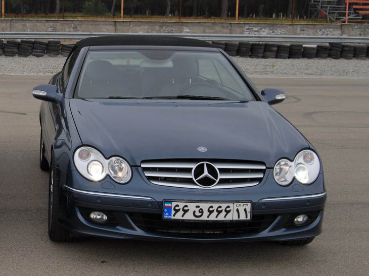 2007 Mercedes-Benz W209 CLK 350 Cabriolet in Iran, with custom plate 66Q666, Iran 11 of Shemiran